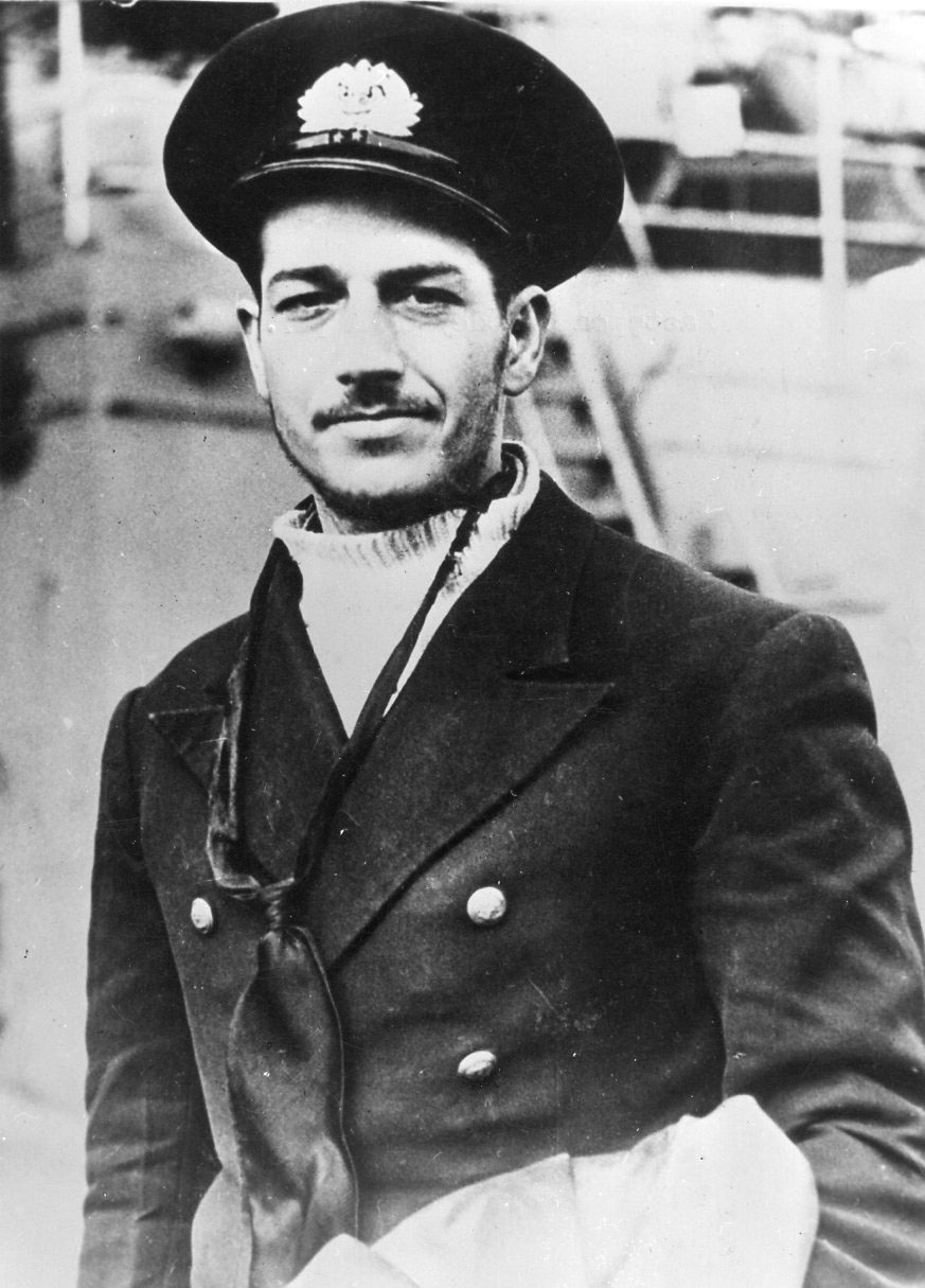 Lt. Andrzej Piasecki, executive officer of the Polish submarine ORP Orzeł. Picture taken before her loss between May and June 1940.